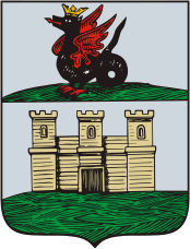 Arsk (Tatarstan), coat of arms (1781)